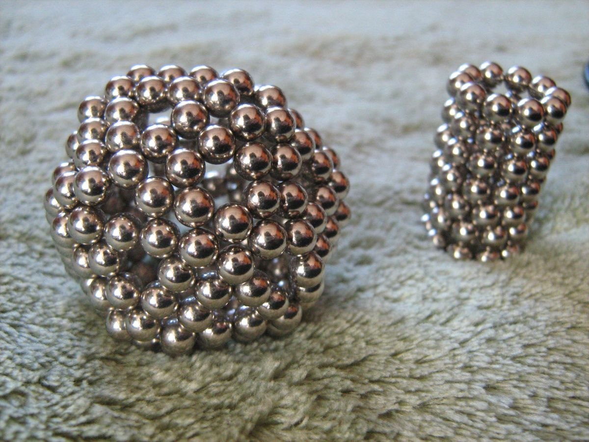 Other objects that can be created with the NeoCube.